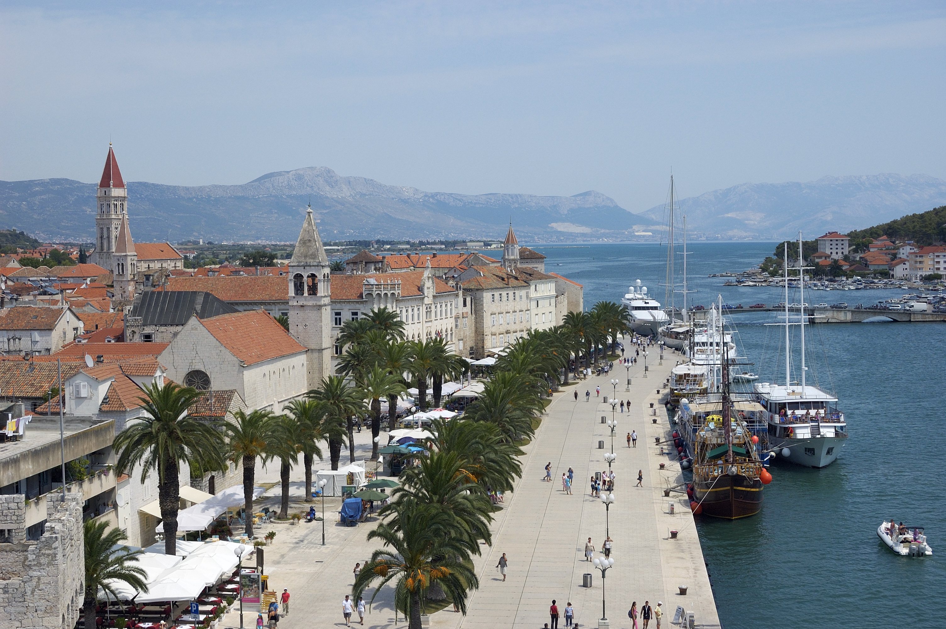 View of Trogir (Croatia)